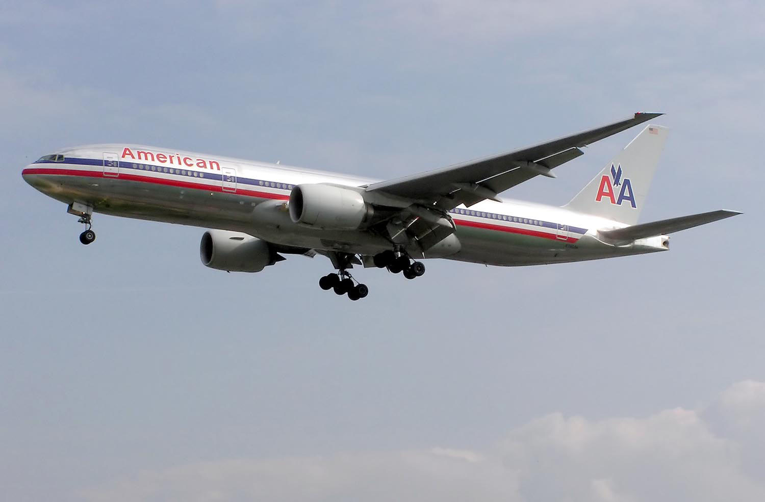 A Boeing 777 jetliner of American Airlines (registration unknown) landing at London (Heathrow) Airport. Taken by Adrian Pingstone in May 2004 and released to the public domain.